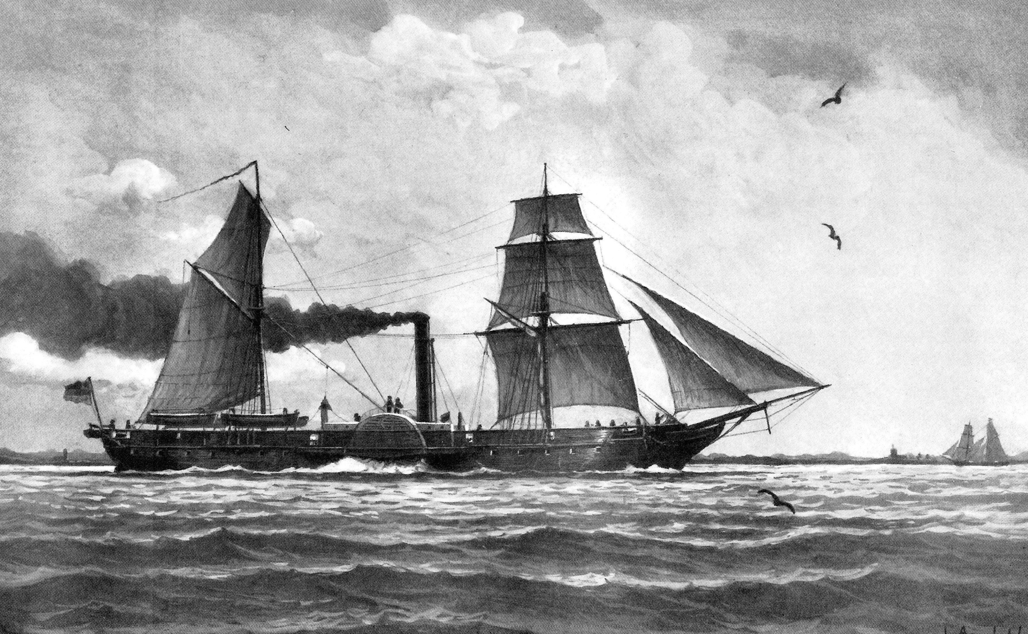 Side wheeler corvette DER KÖNIGLICHE ERNST AUGUST (THE ROYAL ERNST AUGUST) of the German Reichsflotte approximately 1850. Painting by naval artist Lüder Arenhold (1854-1915) round about 1905